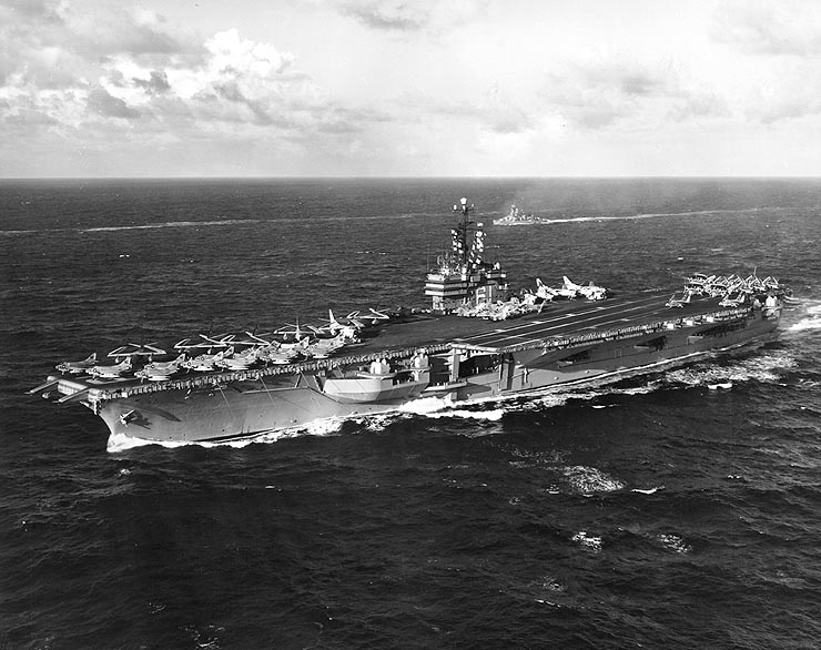 The U.S. Navy aircraft carrier USS Ranger (CVA-61) at sea during her third deployment on 26 August 1961. Among the planes parked on her flight deck are eight Douglas A3D-2 Skywarrior twin-engine jet bombers of Heavy Attack Squadron 6 (VAH-6) "Fleurs". VAH-6 was assigned to Carrier Air Group 9 (CVG-9) aboard the Ranger for a deployment to the Western Pacific from 11 August 1961 to 8 March 1962.